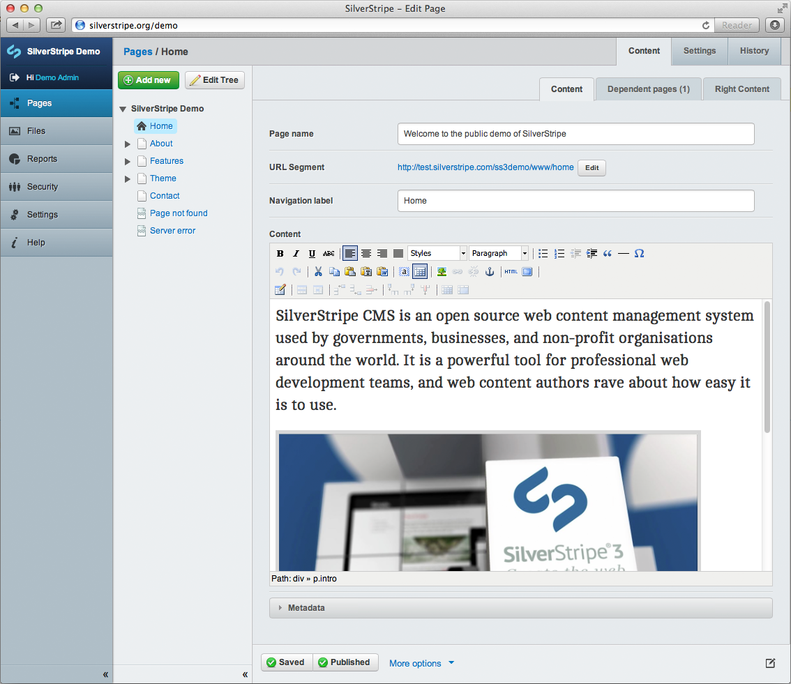 SilverStripe administrator interface version 3.1